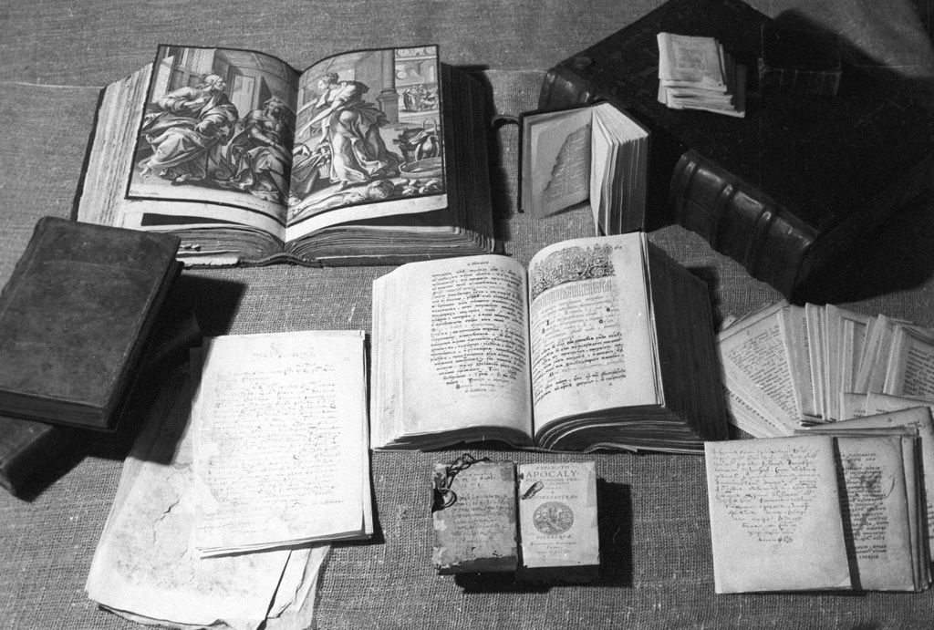 “V. I. Lenin State Library of the USSR”. Ancient books in the restoration department. V. I. Lenin State Library of the USSR, now the Russian State Library.